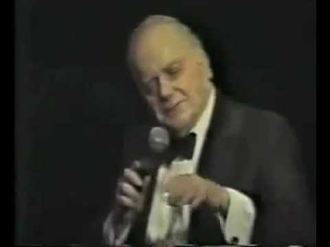 Photo taken by user Jaytribute516